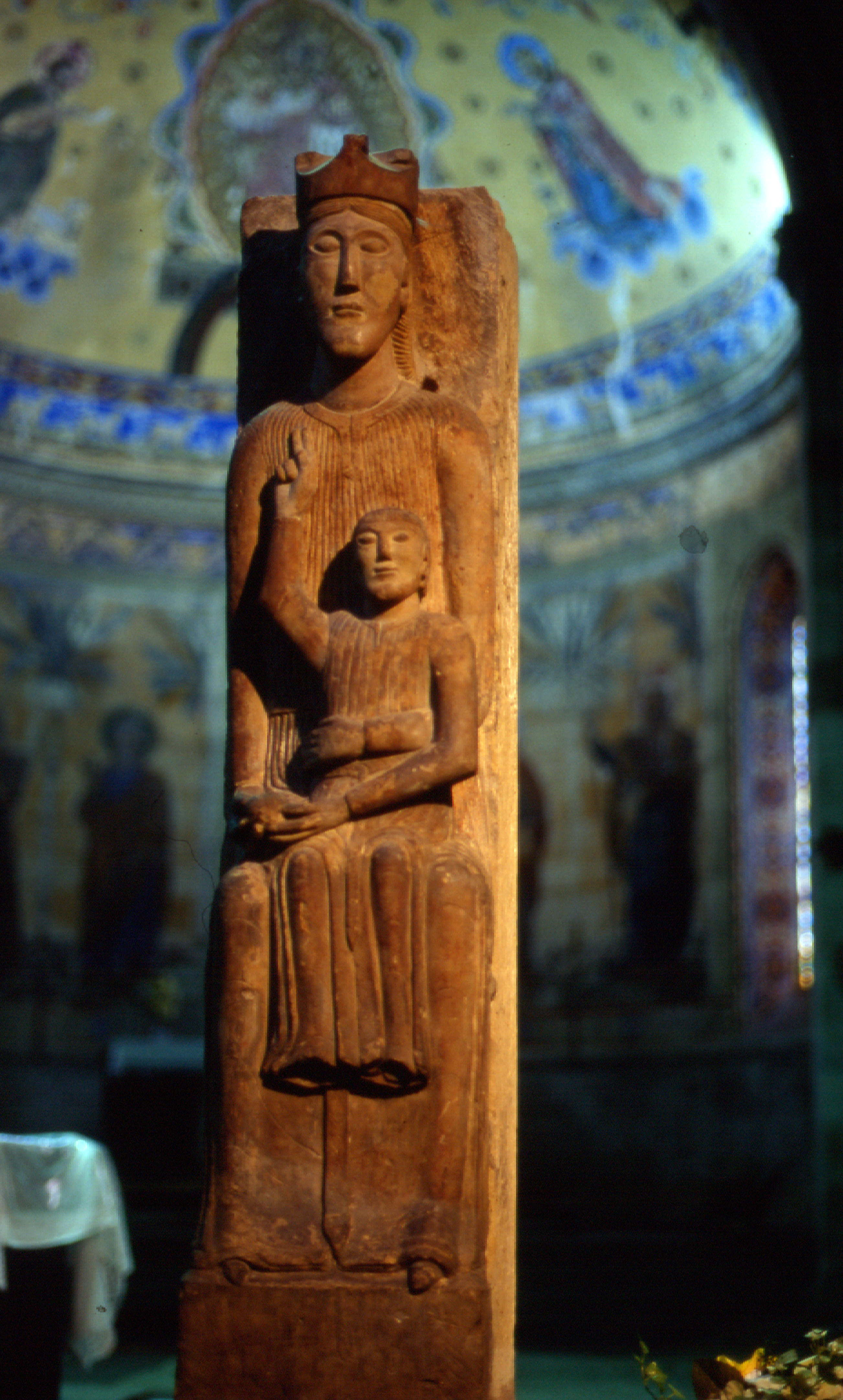 Schwäbisch-Gmünd, church Saint John, romanesque sculpture